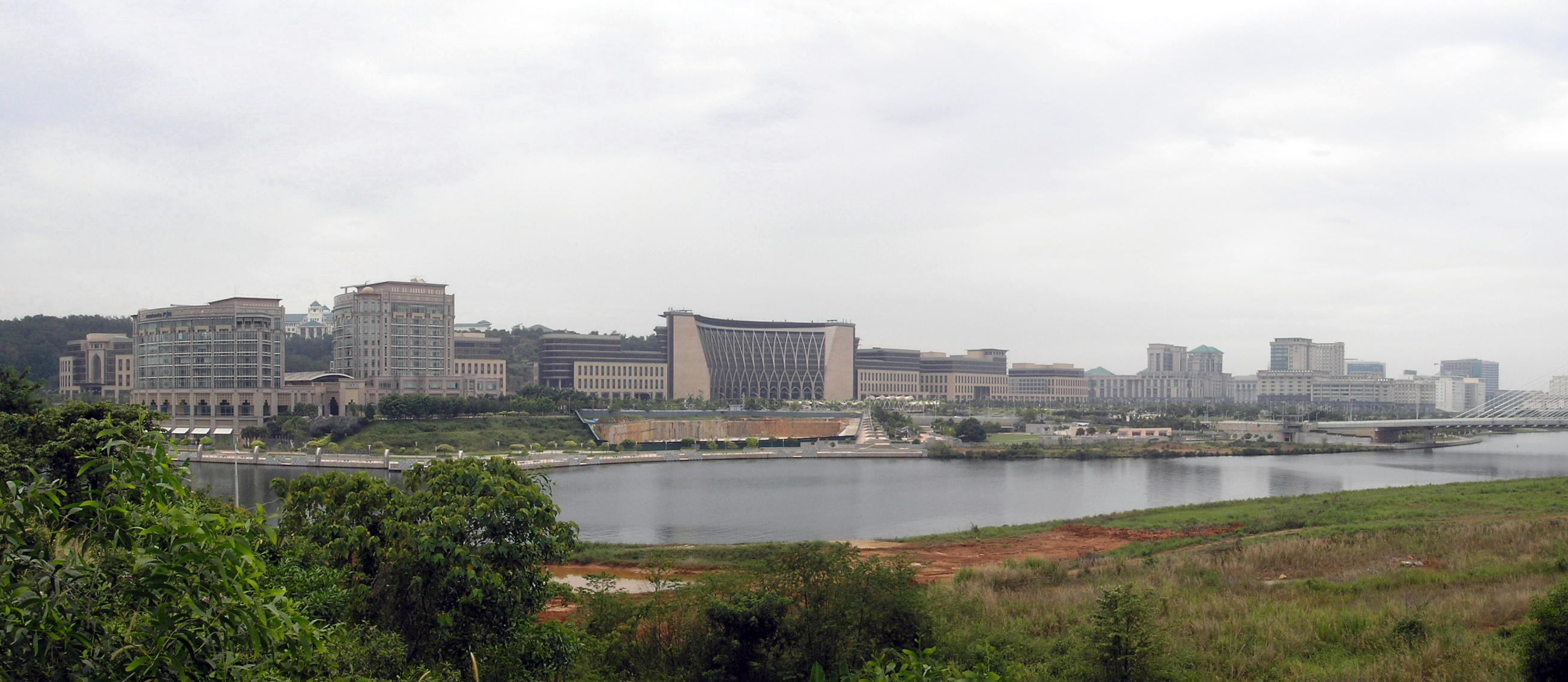 Panorama image of Putrajaya, with the Ministry of Finance in the centre.